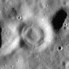 Concentric crater Geiger L on the Moon farside, near northwestern edge of South Pole–Aitken basin. Its diameter is 6.5 km. It is number 76 in the catalogue of concentric craters by Trang (2014) (p. 146–149) and number 19 in the catalogue by Wood, 1978. Photo by Lunar Reconnaissance Orbiter, made with Wide Angle Camera on 12 January 2011 from altitude 57 km. Sun elevation is 15.9°. Width of the photo is 12 km, north is approximately up.